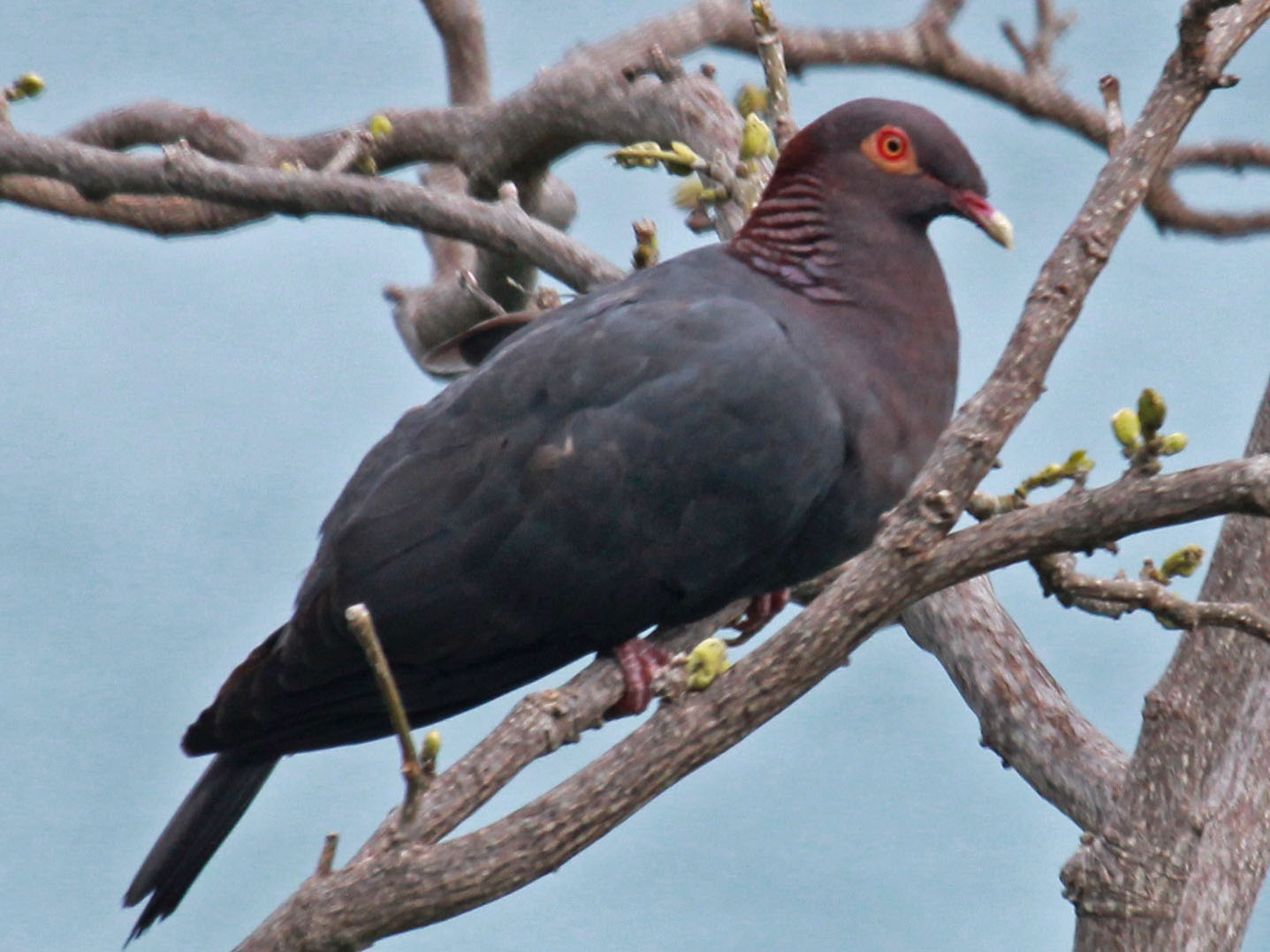 Scaly-naped Pigeon (Patagioenas squamosa) on St. John Island in the US Virgin Islands. This species is also known as the Red-necked Pigeon